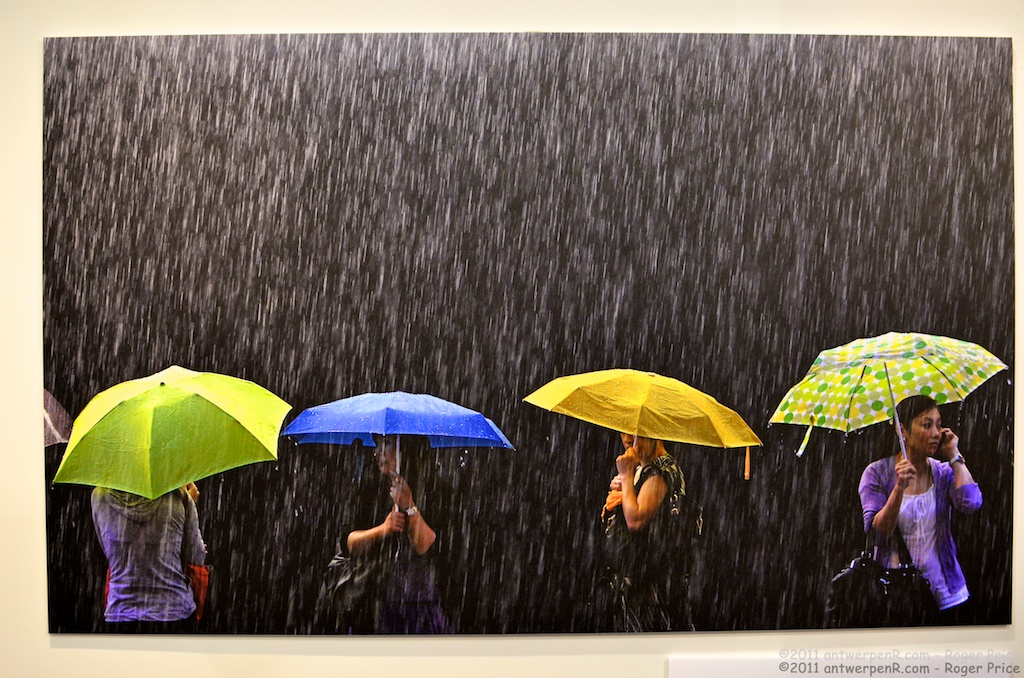 HKPPA 24.8-4.9 2011 @ Times Square To ensure that credit goes where it is due....this is a GREAT picture and I wish that I had taken it....I just snapped it at the HKPPA exhibition in Times Square....be sure to click through to their website...though I do not see this series on it yet!